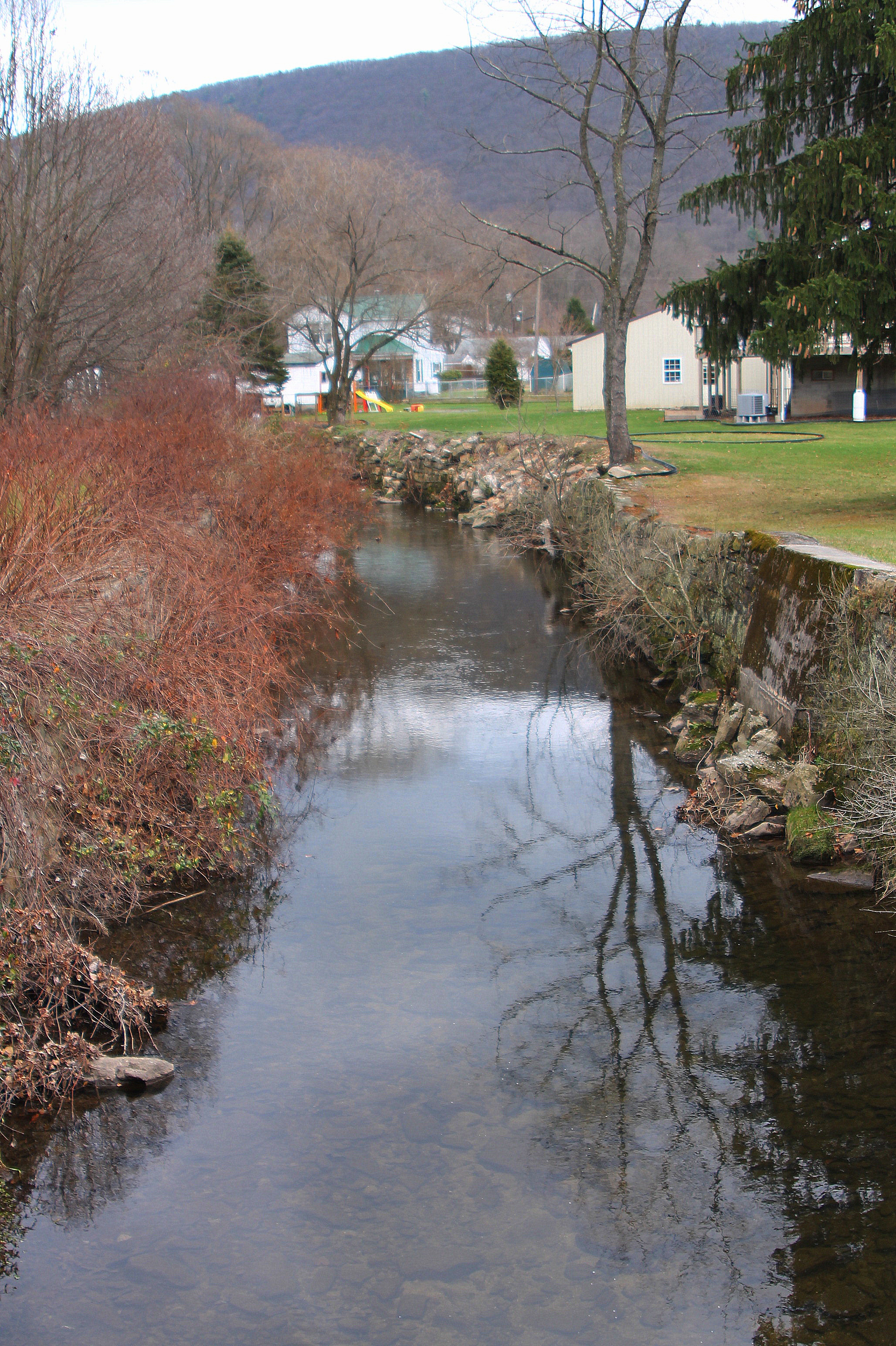 Little Mahanoy Creek, a major tributary of Mahanoy Creek, looking upstream in Gordon, Pennsylvania